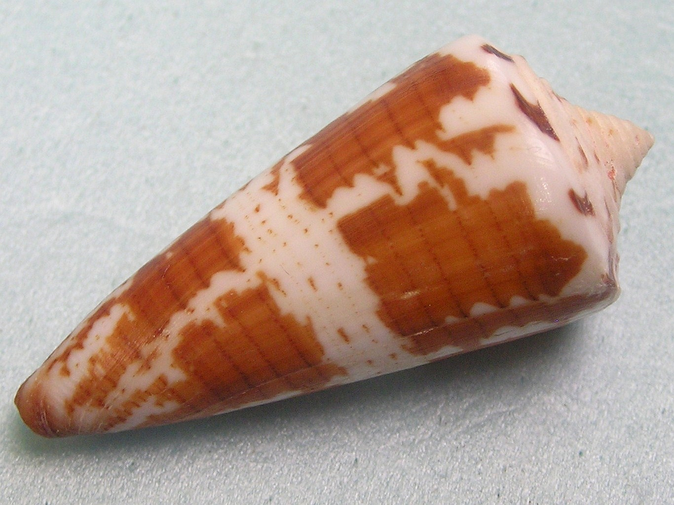 Conus generalis Linnaeus, 1767 (synonym: Conus maldivus Hwass in Bruguière, 1792)